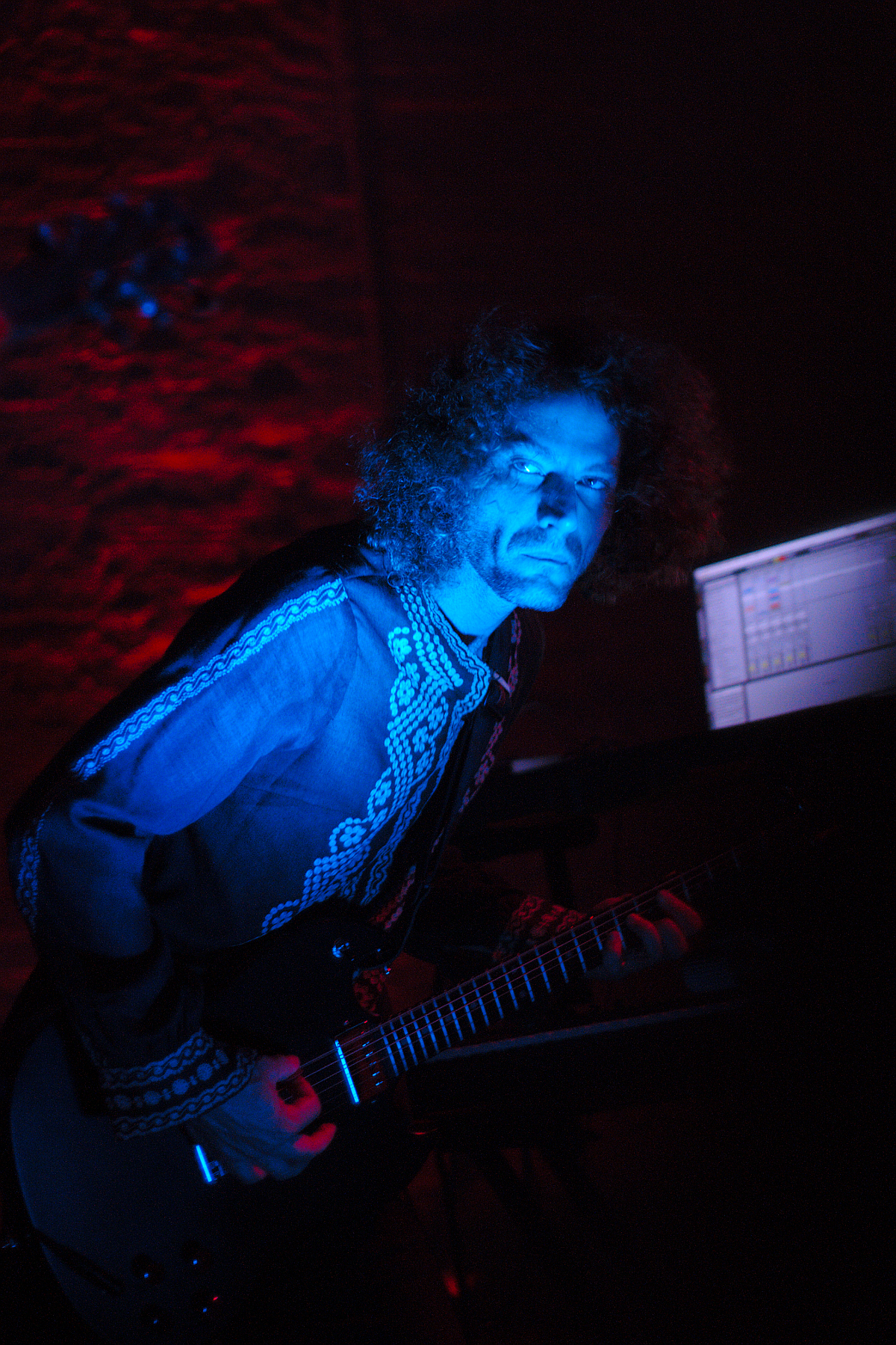 Bryant Clifford Meyer, guitarist and keyboardist of Californian post-metal band Isis, during a concert at Stuttgart venue Wagenhallen on 2009-07-09. View in my concert gallery.